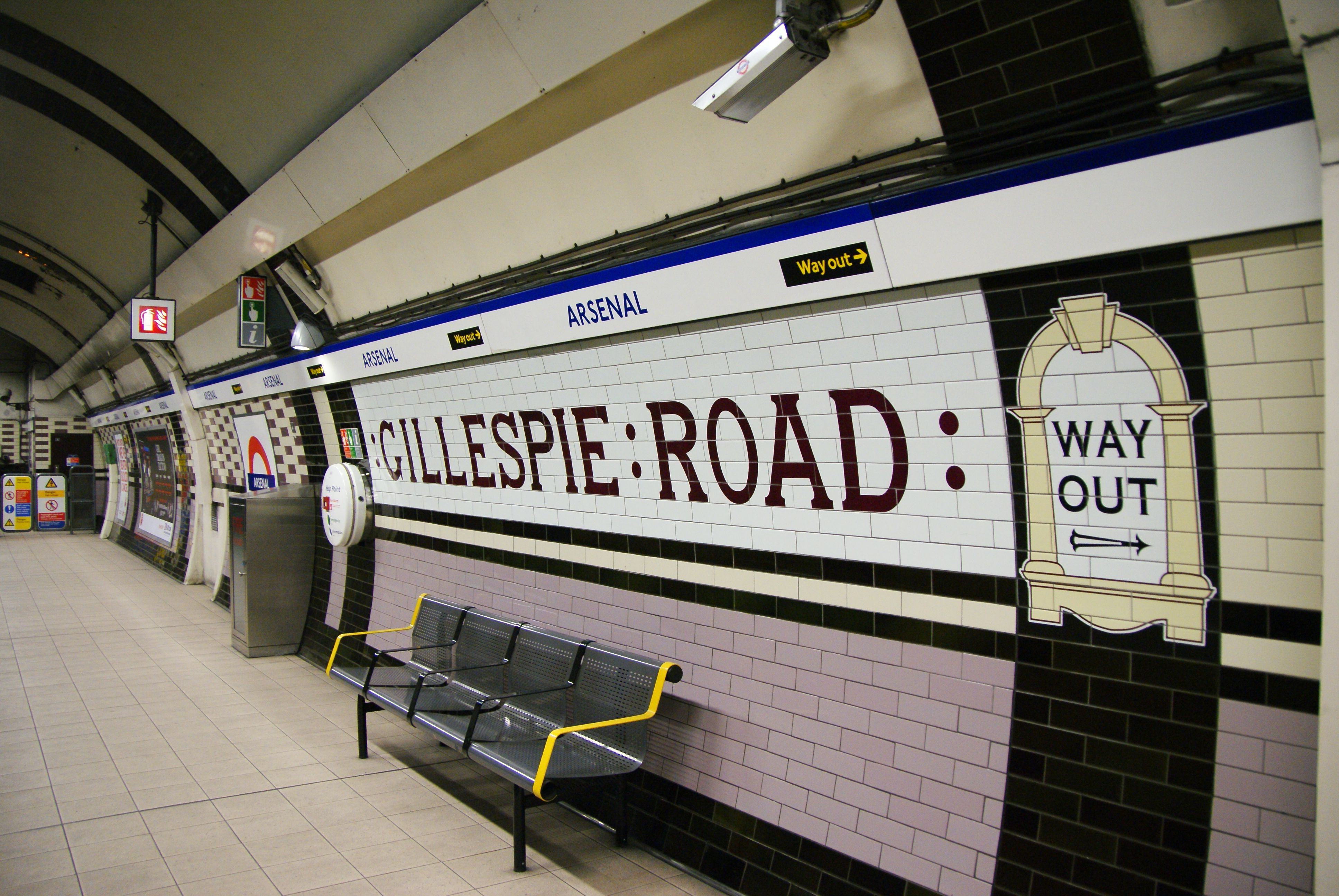 One of Leslie Green's tile and faience stations, the frontage was renewed in 1932, until then was a typical ox-blood one. The platforms are reached by ramps and stairs only, one of only two such on the system. The railings in the tunnels are used to seperate football fans from us "normals" on match days.